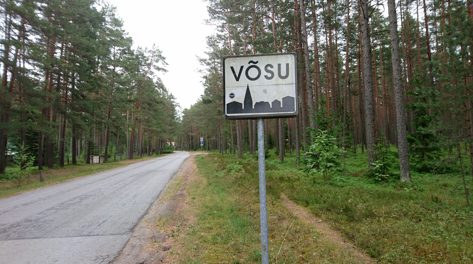 Village of Vösu, Estland, entrance